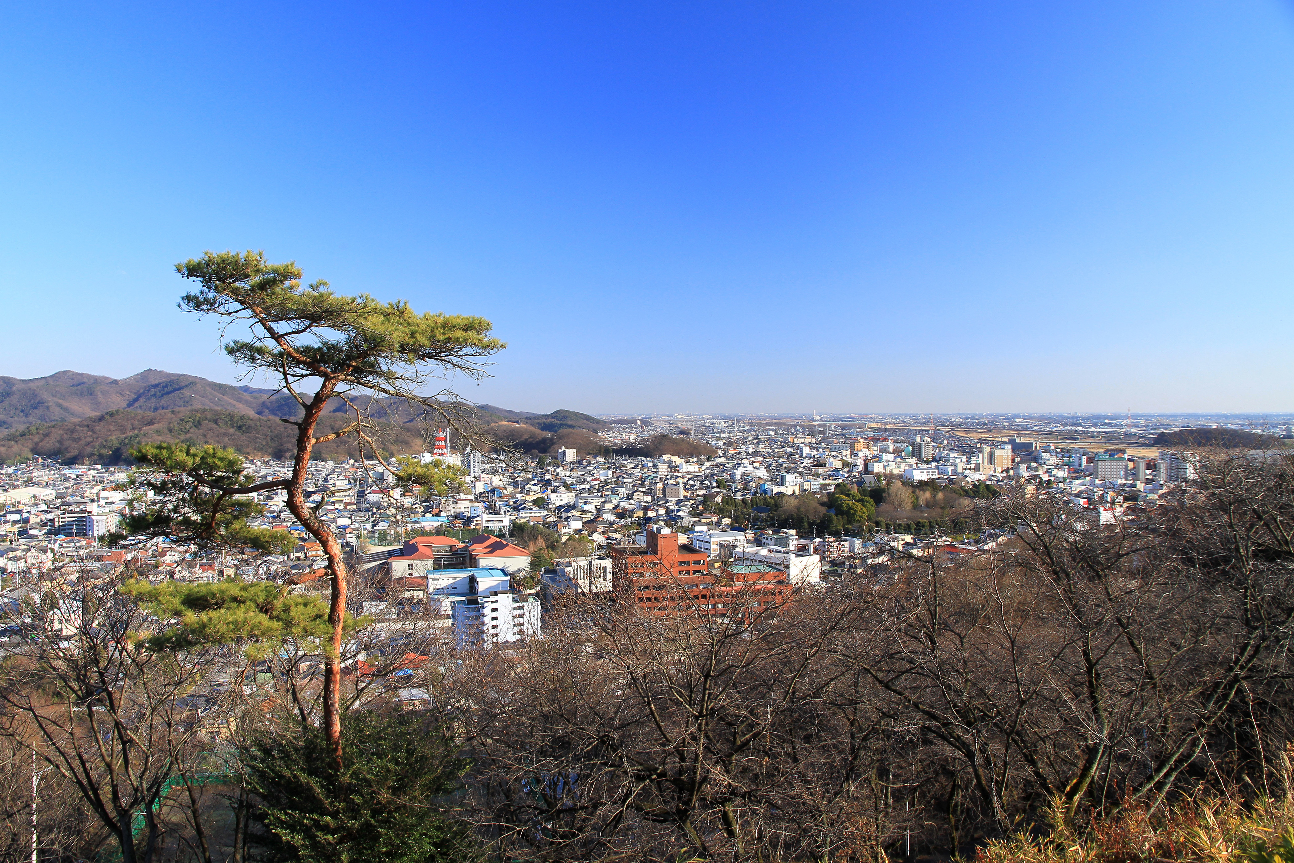 Ashikaga City,Tochigi,Japan